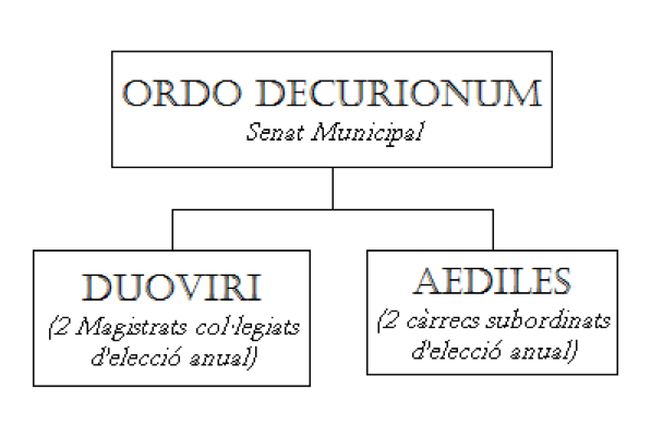 Gerunda's Political Organization Schema